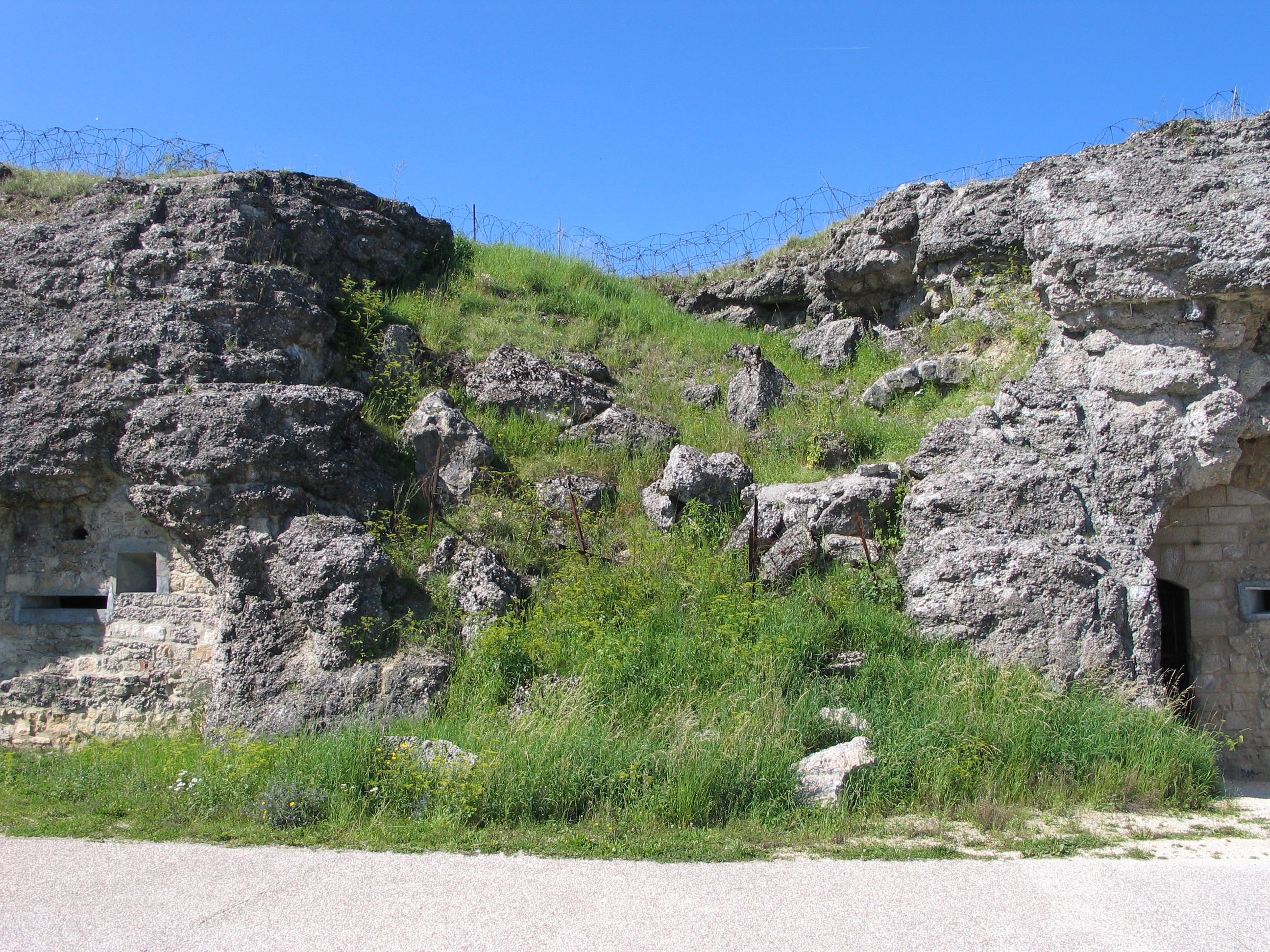 Fort Douaumont. One of the casemates destroyed by direct hits on the first floor.